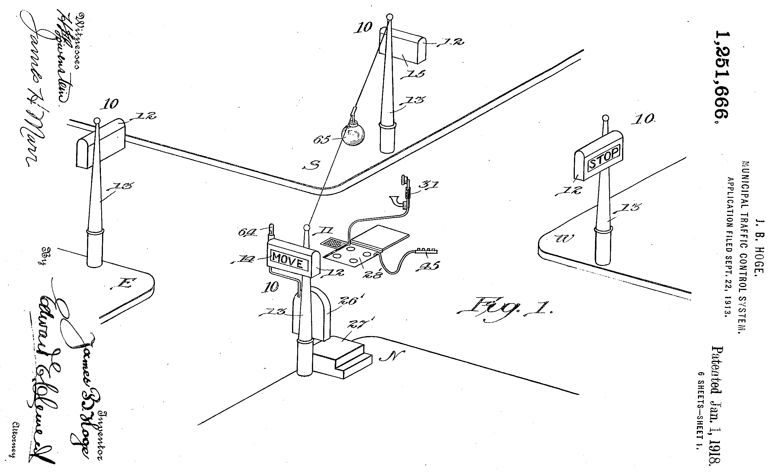 Hoge Traffic Signal